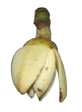 Polyceratocarpus parviflorus (Baker) Ghesq flower